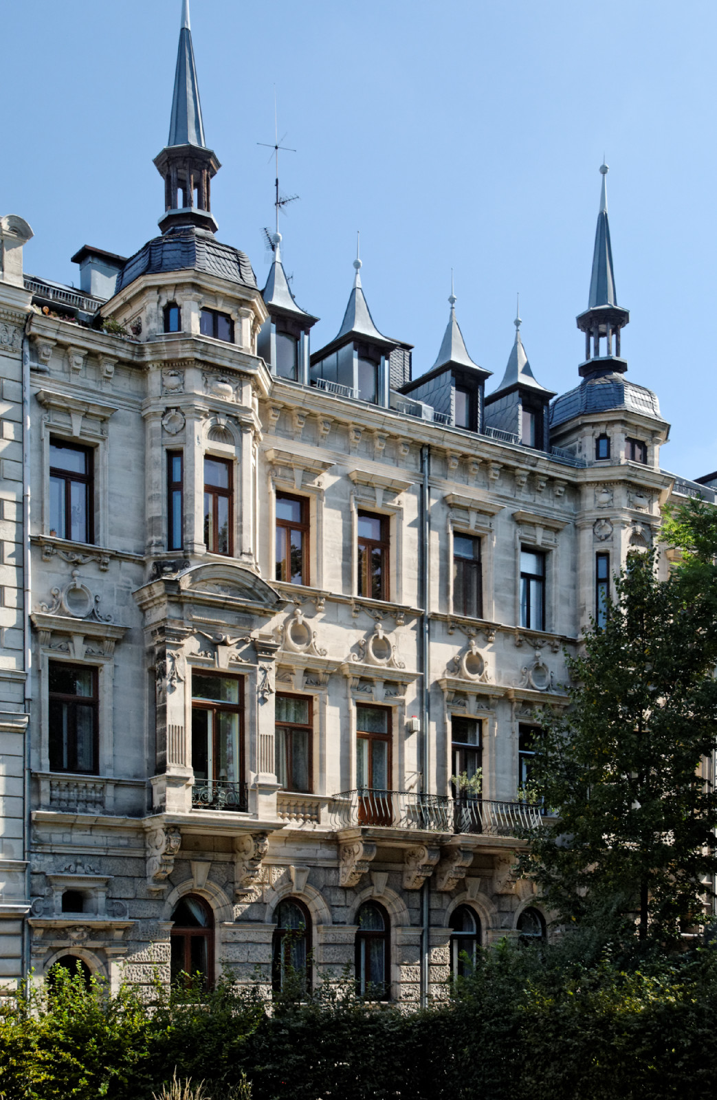 Houses Hornschuchpromenade 3 and 4 in Fürth, Germany